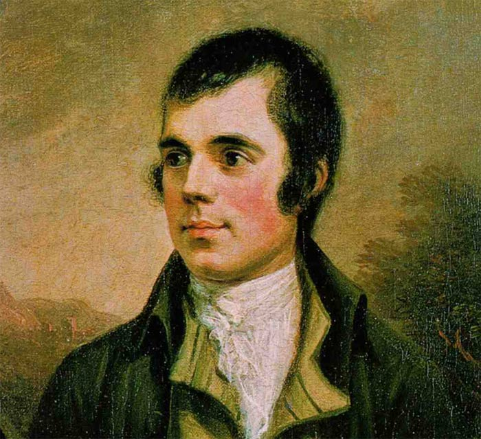 Robert Burns Source: Image:Robert burns.jpg Replacement of existing commons image with higher res version